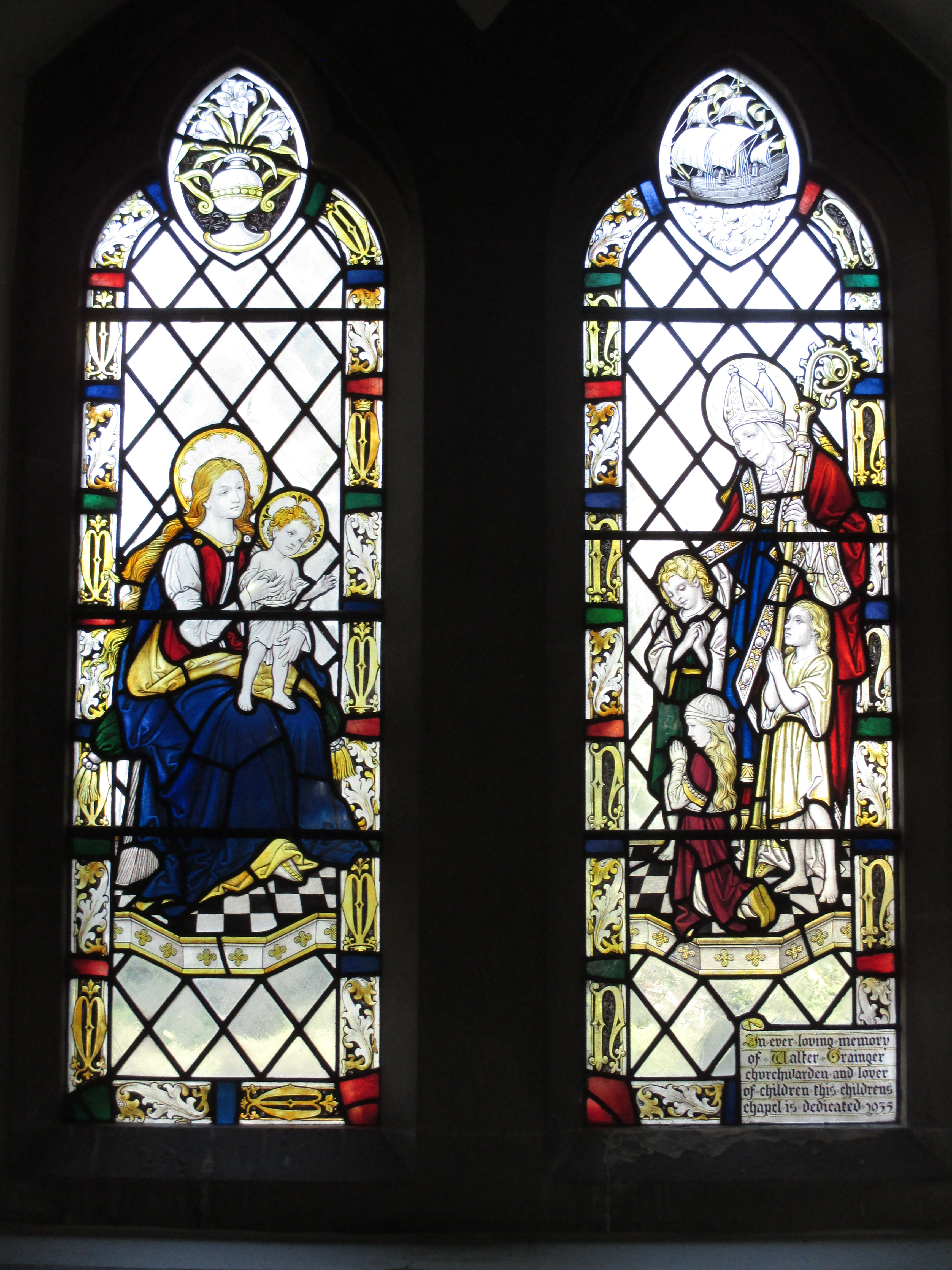 East window of the north transept of St Peter's Church, Henfield, West Sussex. Designed by Frederick Charles Eden in 1935.